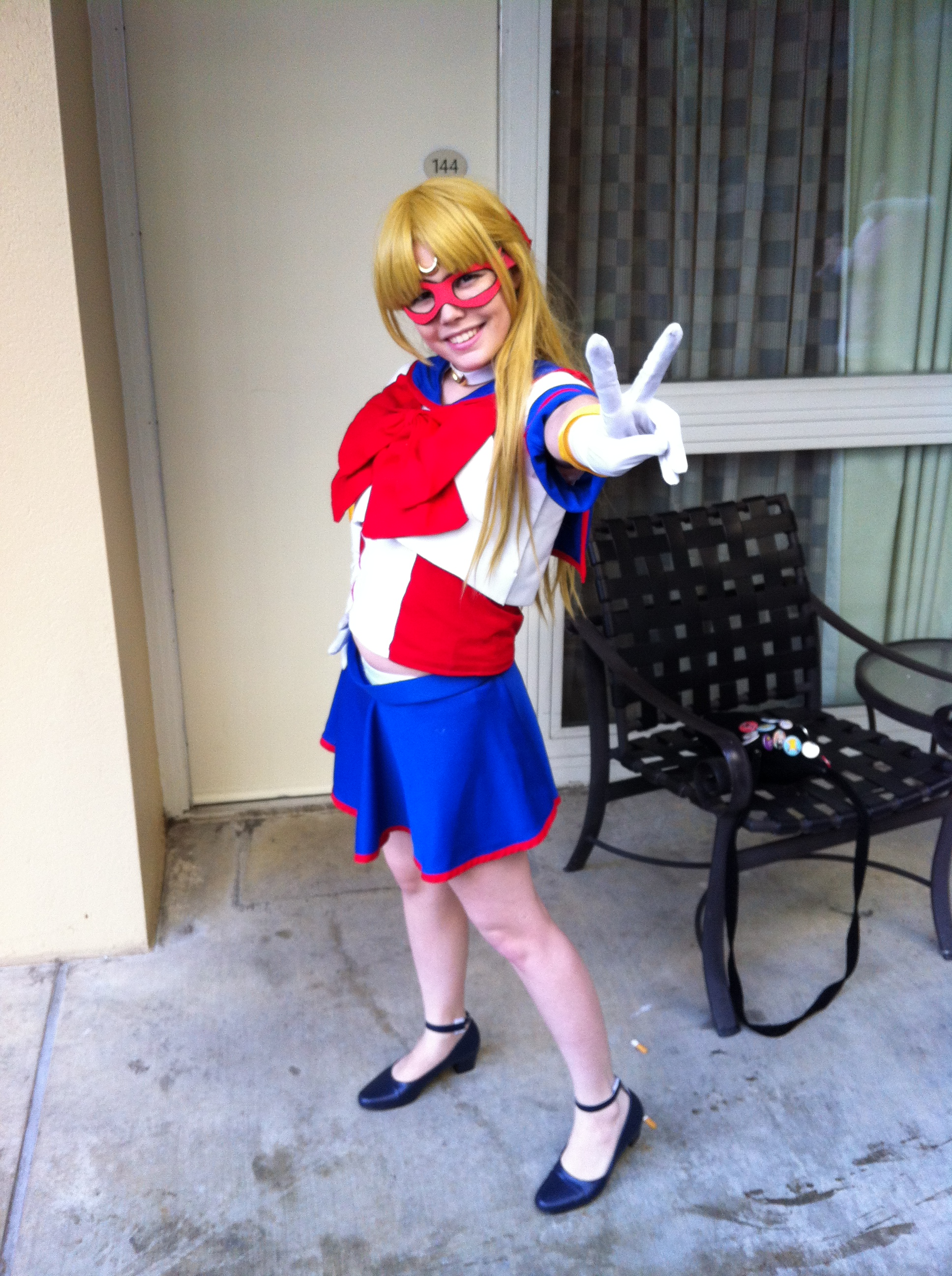 Cosplay of Sailor V